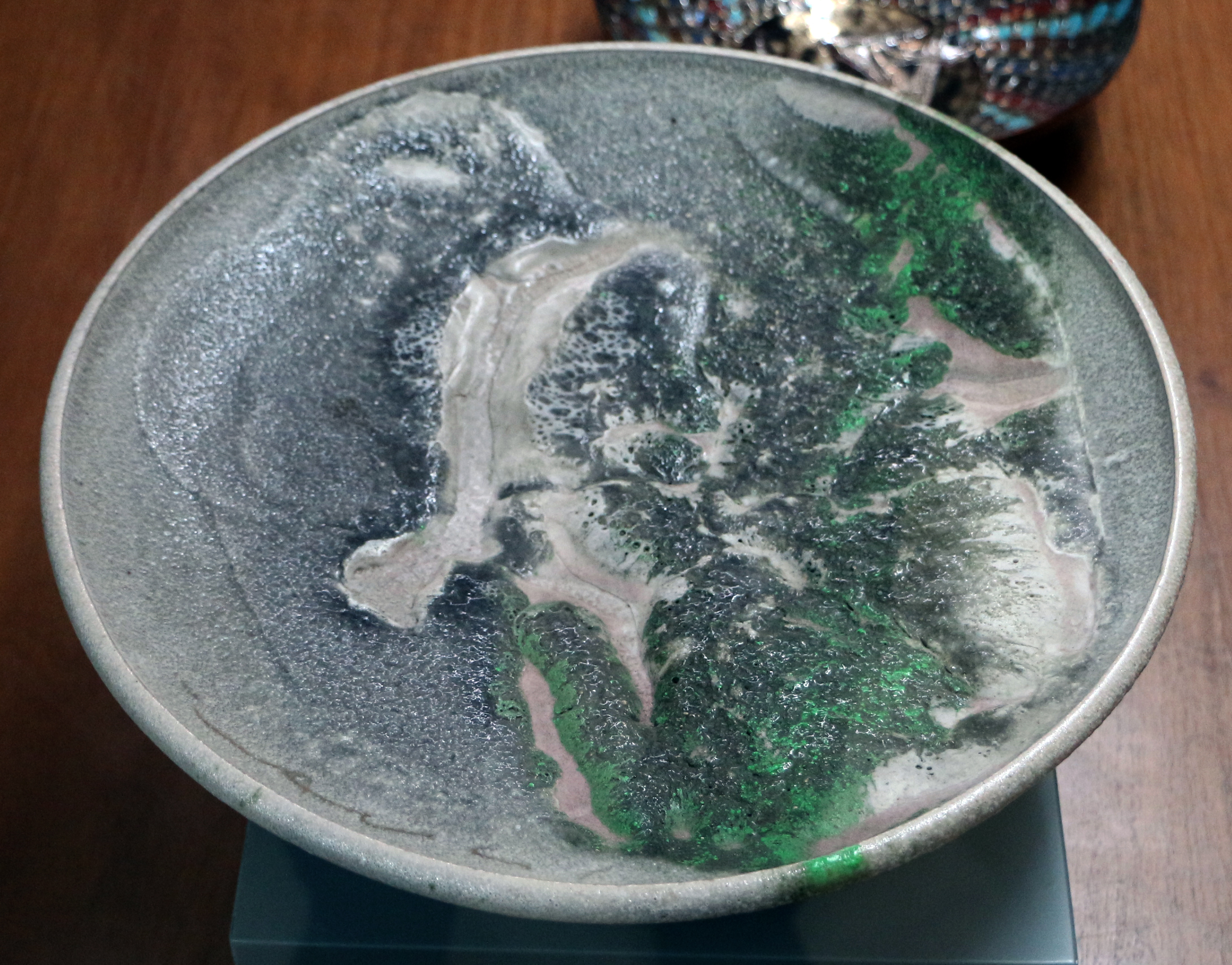 Raccolte d'arte applicate del Castello Sforzesco di Milano - Pottery